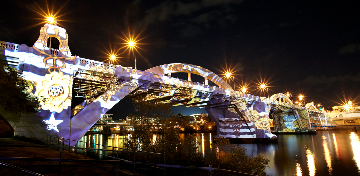 By Ian De Gruchy (2009) The Lord Mayor wears the traditional decorations and insignia of the office for public events and formal occasions. This includes the ceremonial chain, which is featured in this projection.